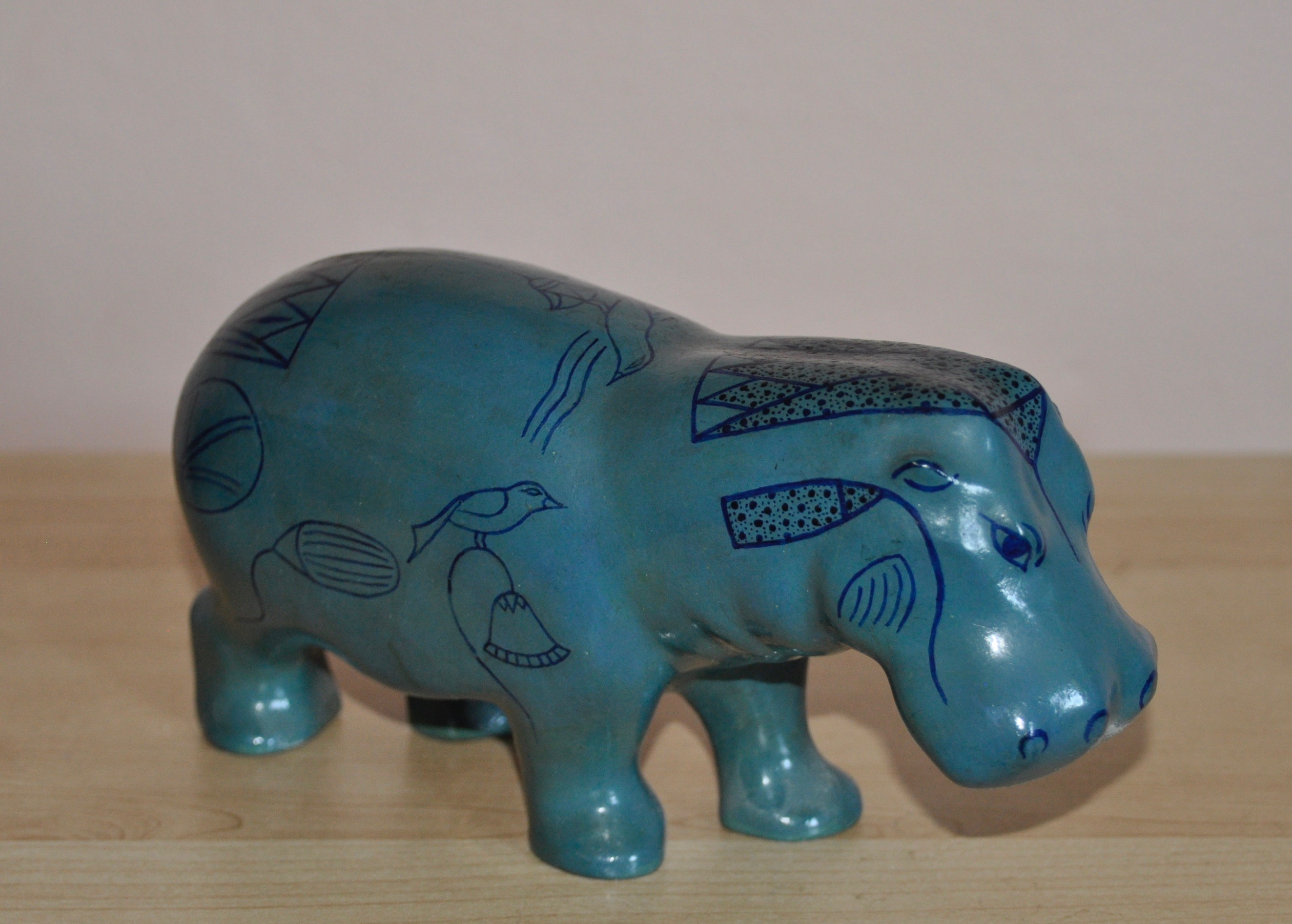 Hypoppotamus of the 12th Dynasty a copy from the Egyptian Museum, Cairo